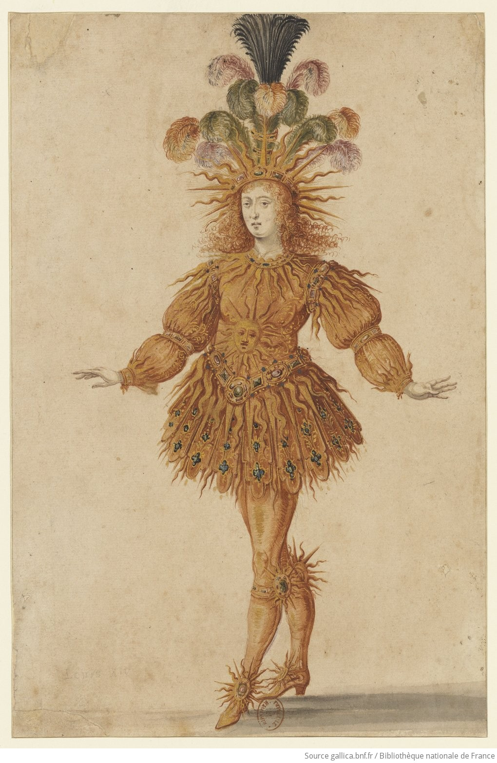 Louis XIV dans Le Ballet de la nuit. The ballet was choreographed in 1653. It was significant because Louis XIV made his debut at court. This court ballet lasted 12 hours, beginning at sundown and lasting until morning, and consisted of 45 dances. Louis XIV appeared in 5 of them. The most famous dance of Ballet de la Nuit portrays Louis XIV as Apollo the Sun King. Art by Henri de Gissey published in copy of the ballet by R. Ballard in 1653